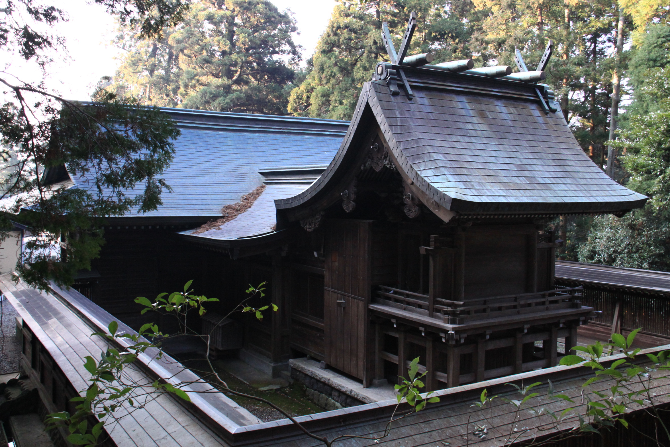 Kawawa jinja Honden